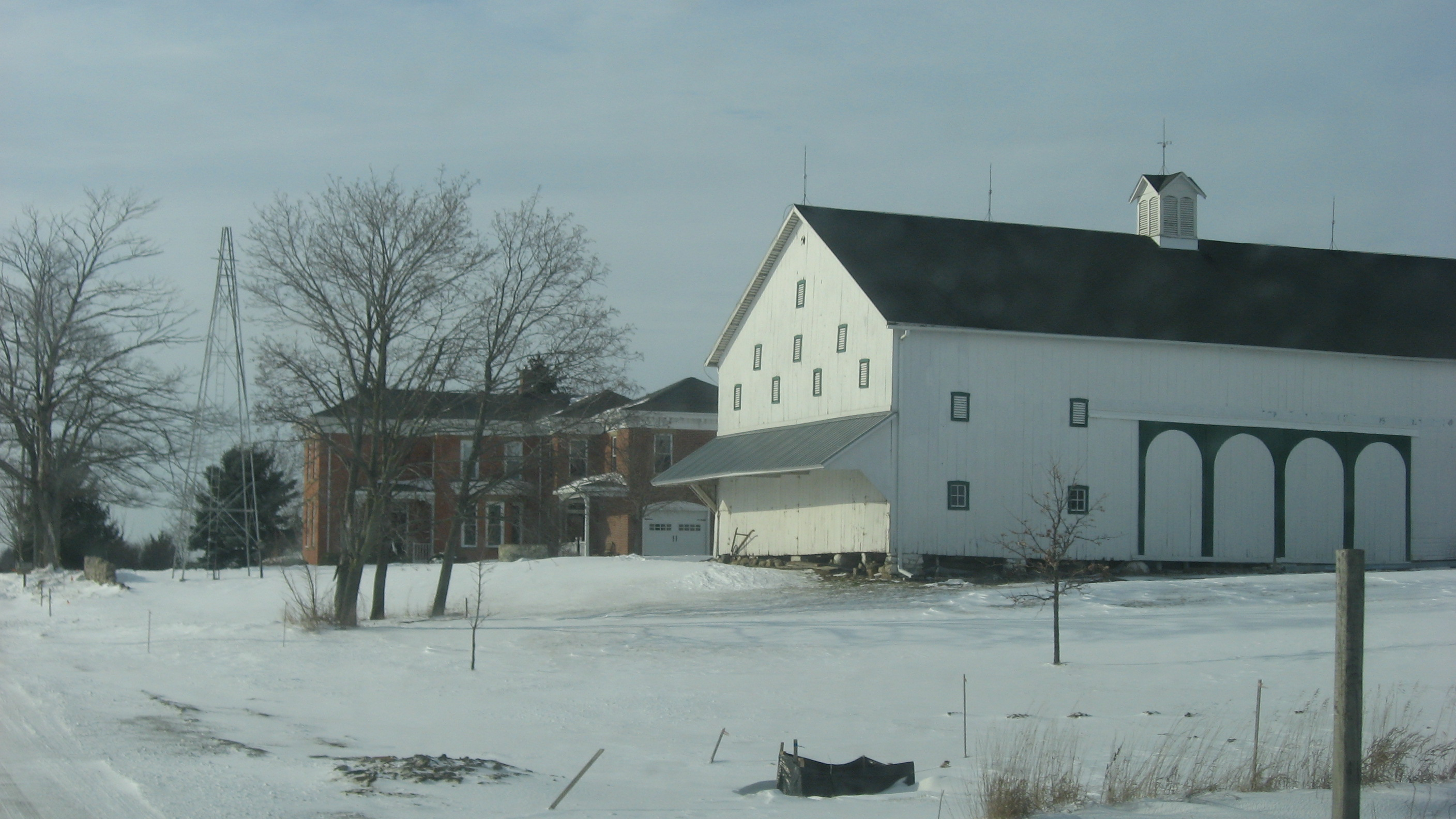 View from the east of the Martin Blume Jr. Farm, located at 7311 Flutter Road northeast of Fort Wayne in St. Joseph Township, Allen County, Indiana, United States. Built in 1883 (barn) and 1885 (farmhouse), the farmstead is listed on the National Register of Historic Places.